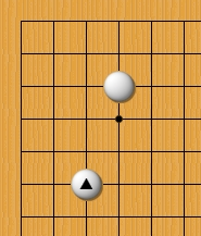 Ogeima a nomenclature used in Go